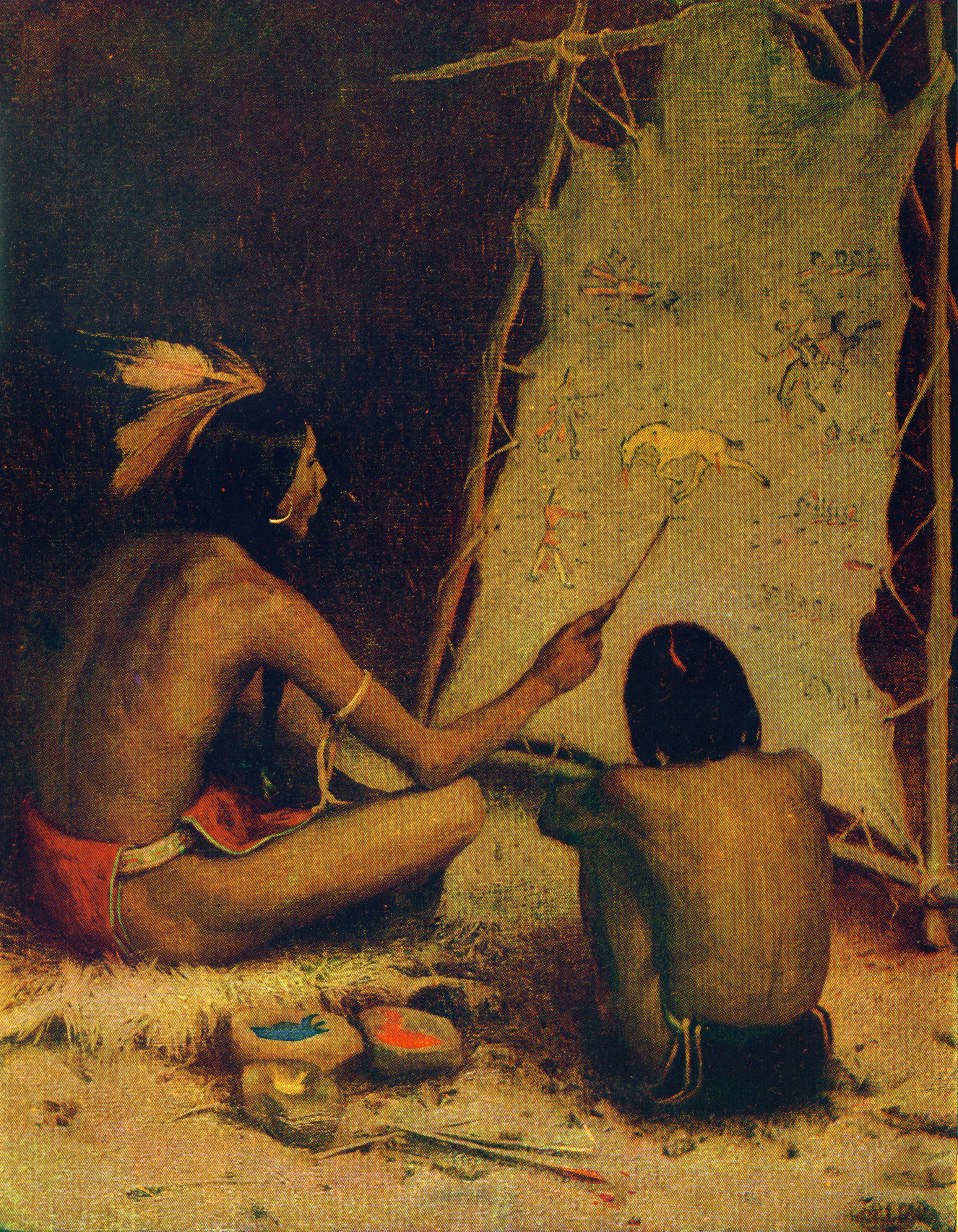 Digital scan of a color plate of painting. Printed with the following caption: 1902 by E. Irving Couse, A. N. A.; The Historian; The Indian Artist is painting in sign language, on buckskin, the story of a battle with American Soldiers. When exhibited at the National Academy this picture was considered one of the most important paintings of the year. See if you can find the sign of the Indians, the United States Calvalry and the officer in command. The dots he is making are "bullets." See the arrows.